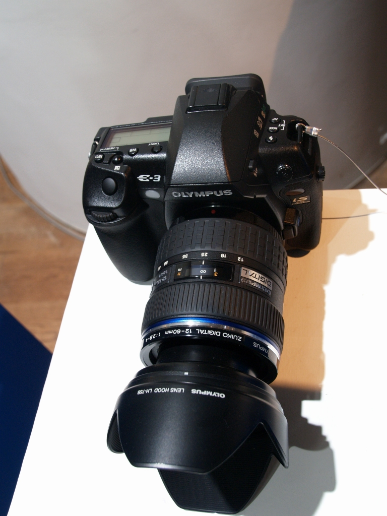 Olympus E-3 DSLR Camera with Zuiko Digital ED 12-60mm F2.8-4.0 SWD